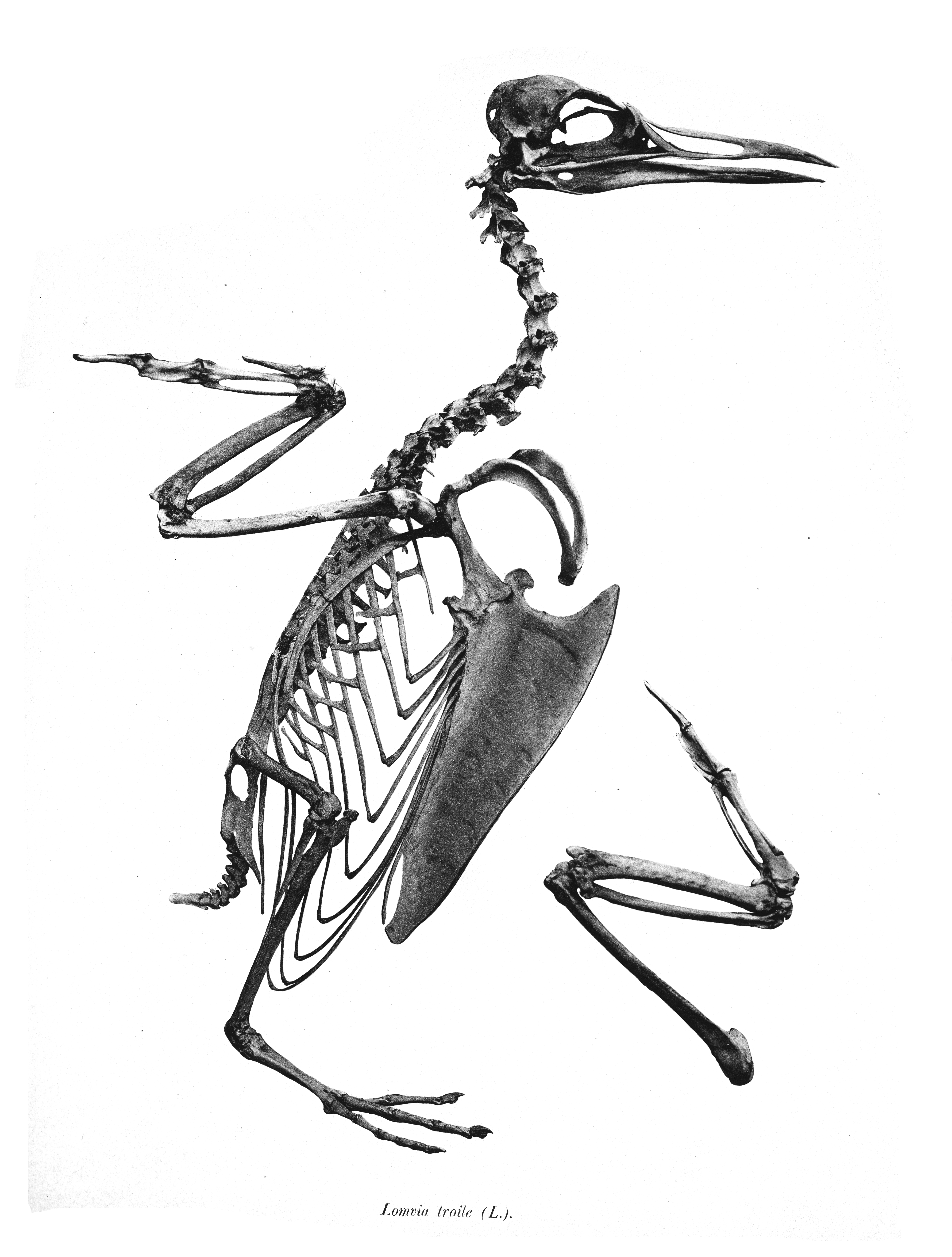 Uria aalge